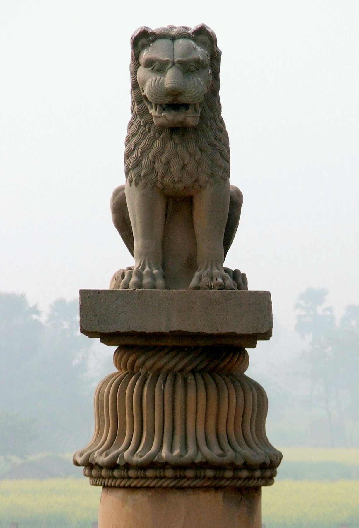 Asokan pillar at Vaishali, Bihar, India. Build by Emperor Asoka in about 250 BC, and still standing.